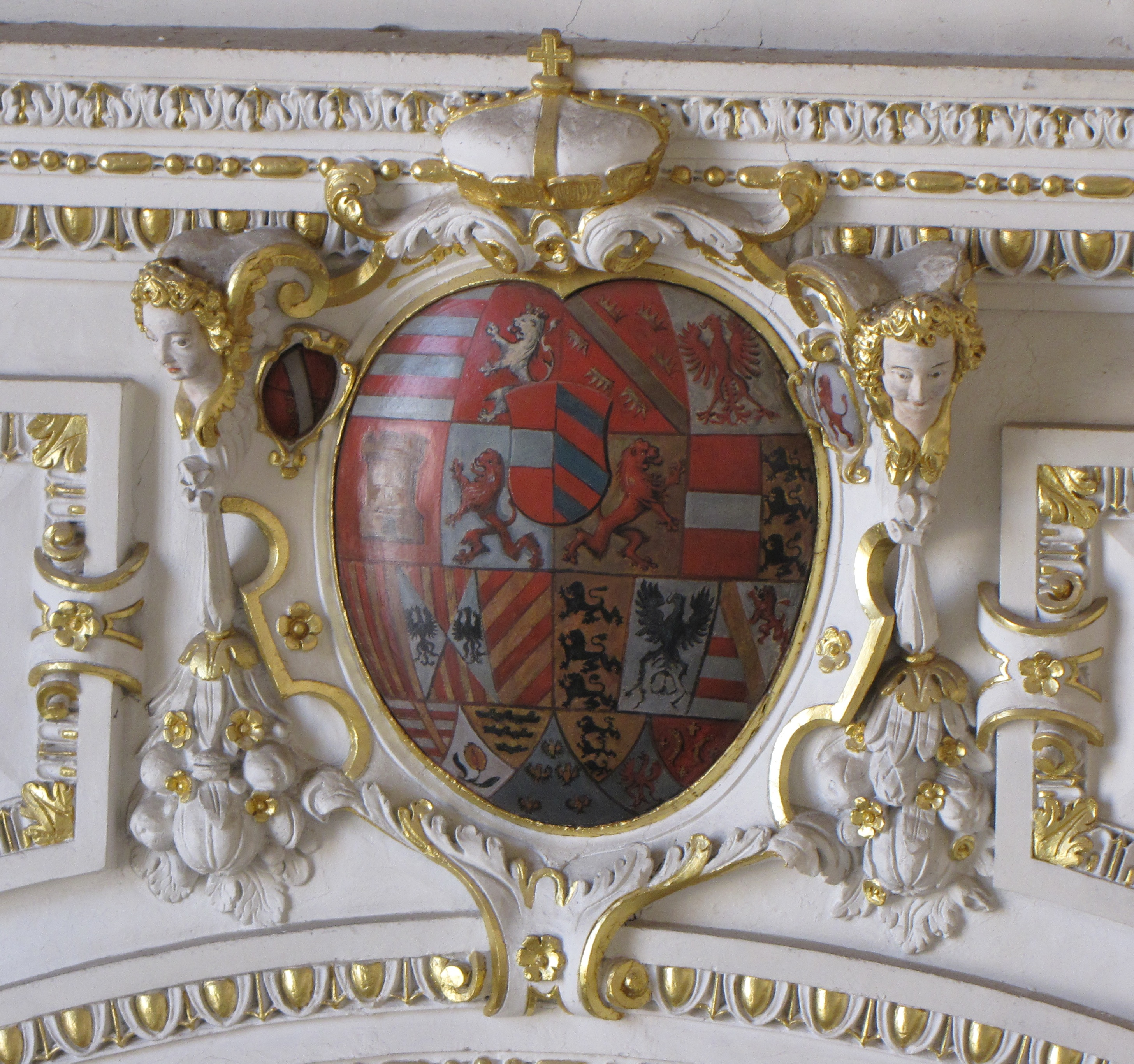 Chapelle Saint Ignace, église des Jésuites, Molsheim, Bas-Rhin, France. Arms of Leopold of Austria